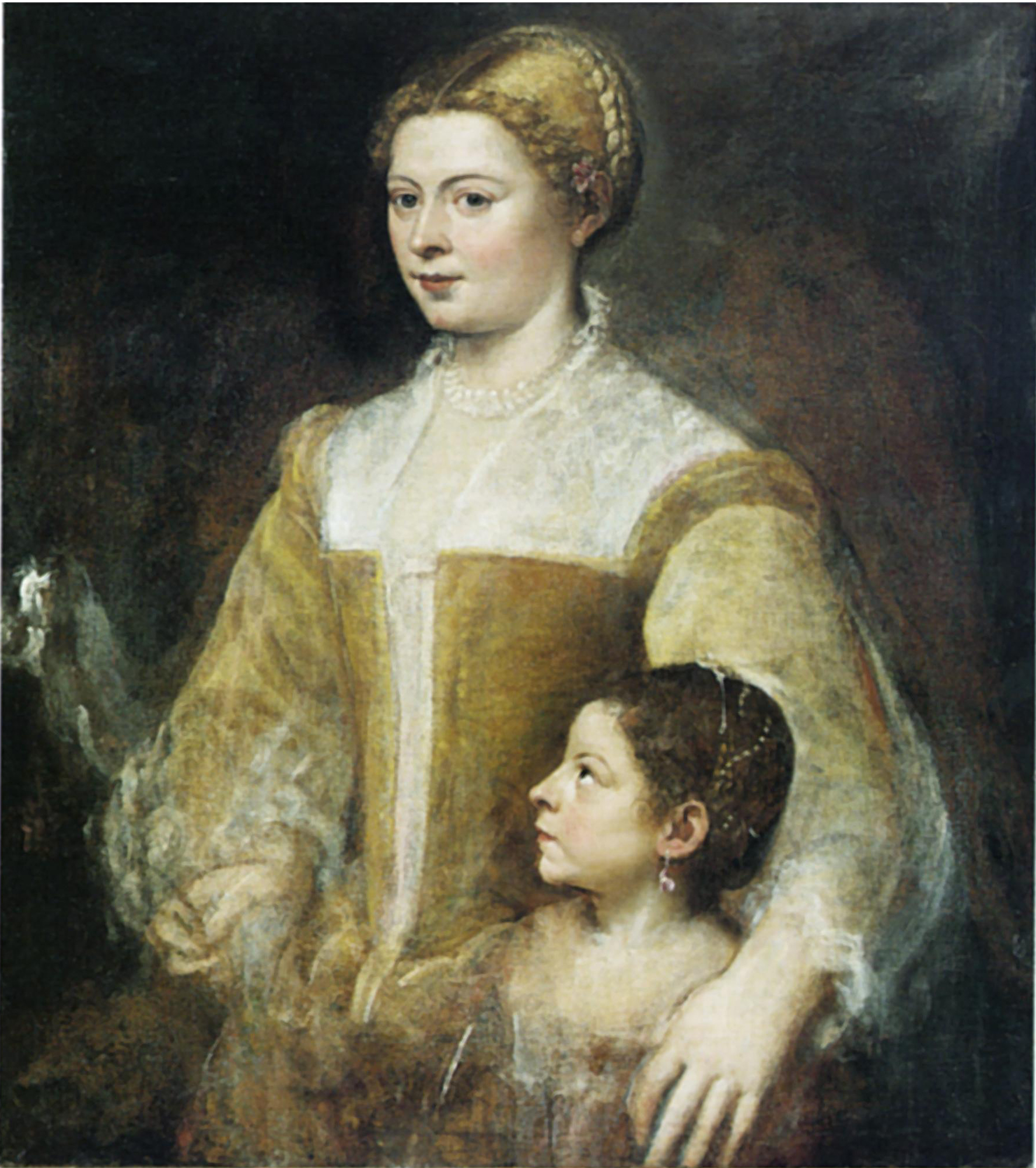 Portrait of a Lady and her Daughter was begun in the 1550s/ It is thought to depict Titian's daughter Emilia with one of his granddaughters.